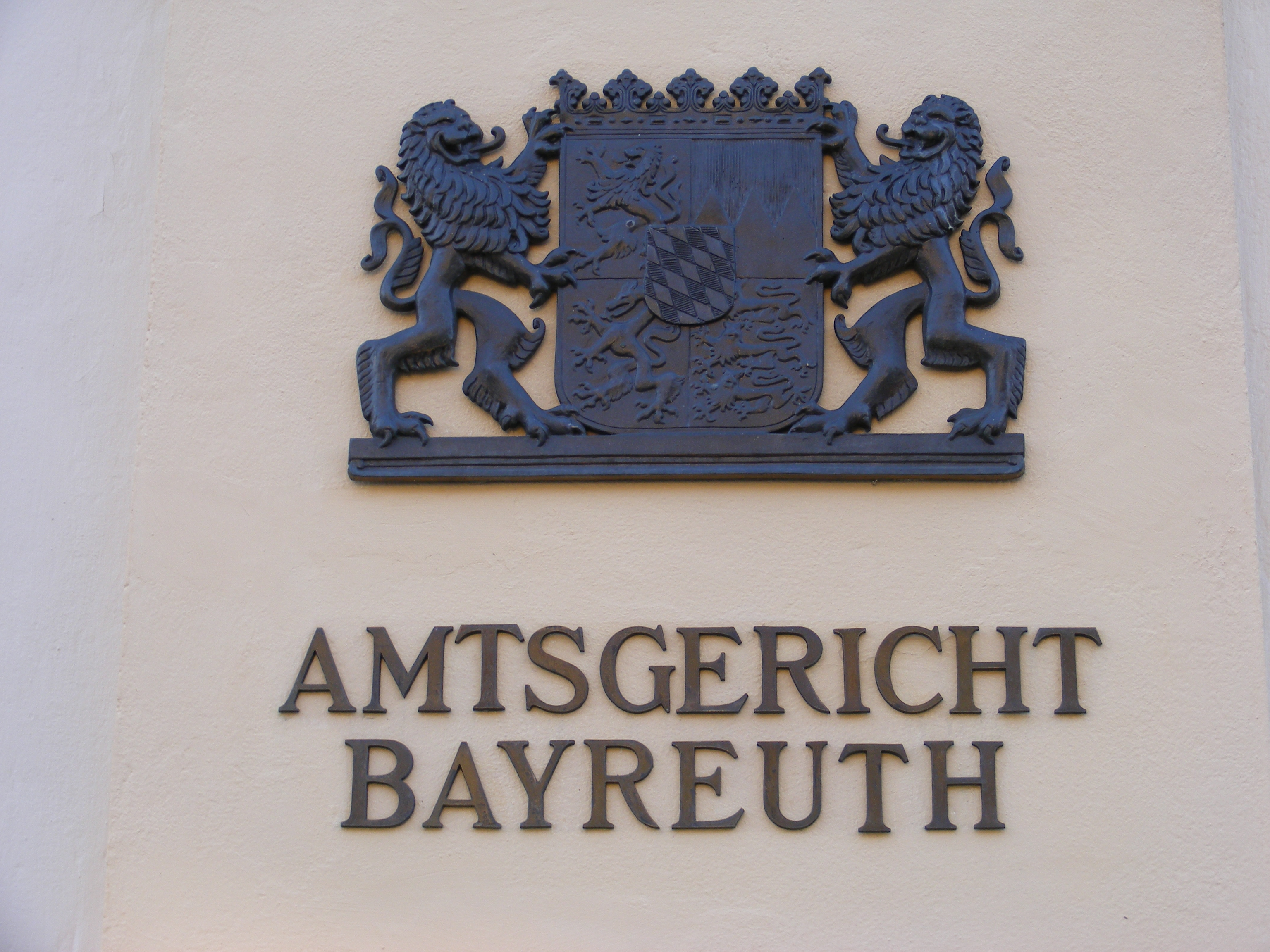 Court sign in Germany in Bayreuth